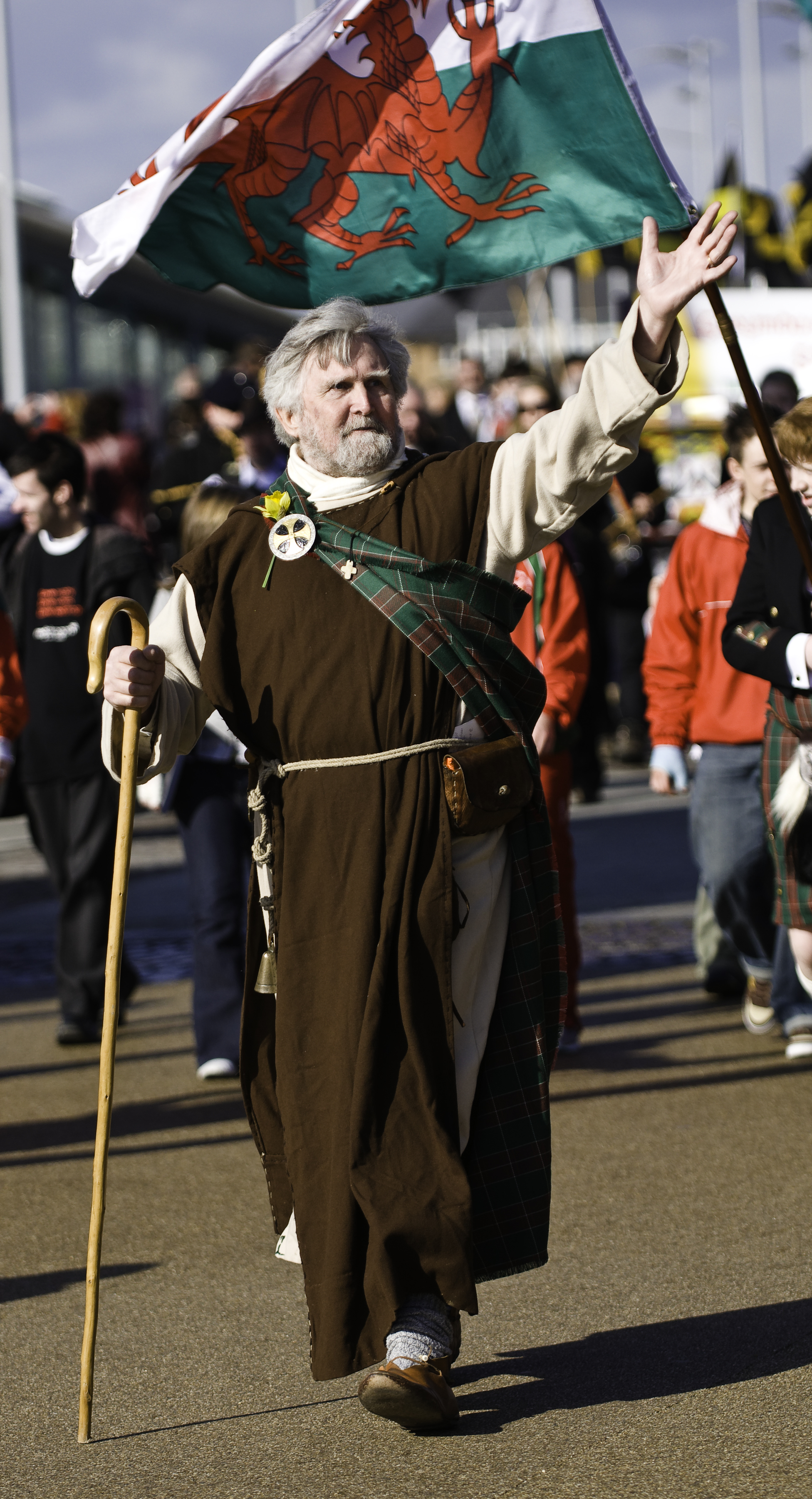 St David's Day Celebration, Cardiff Bay, March 1st 2009